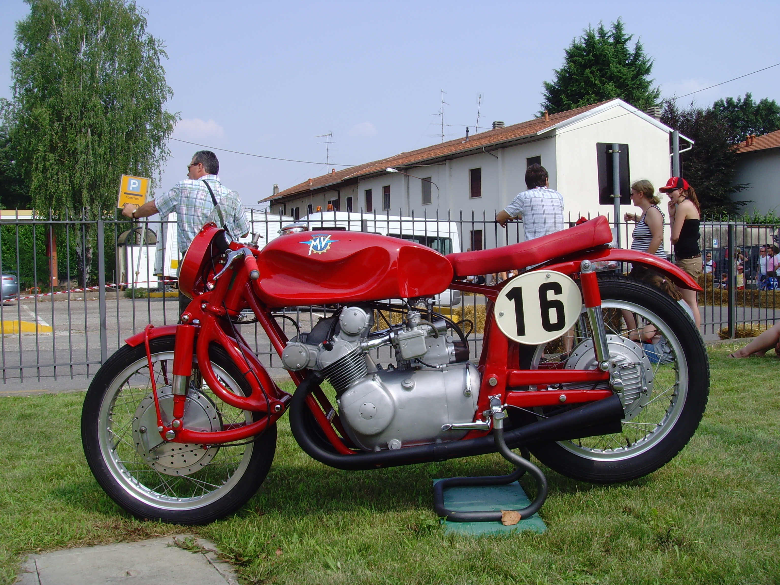 MV Agusta 500 racing, 1951, designed by Pietro Remor